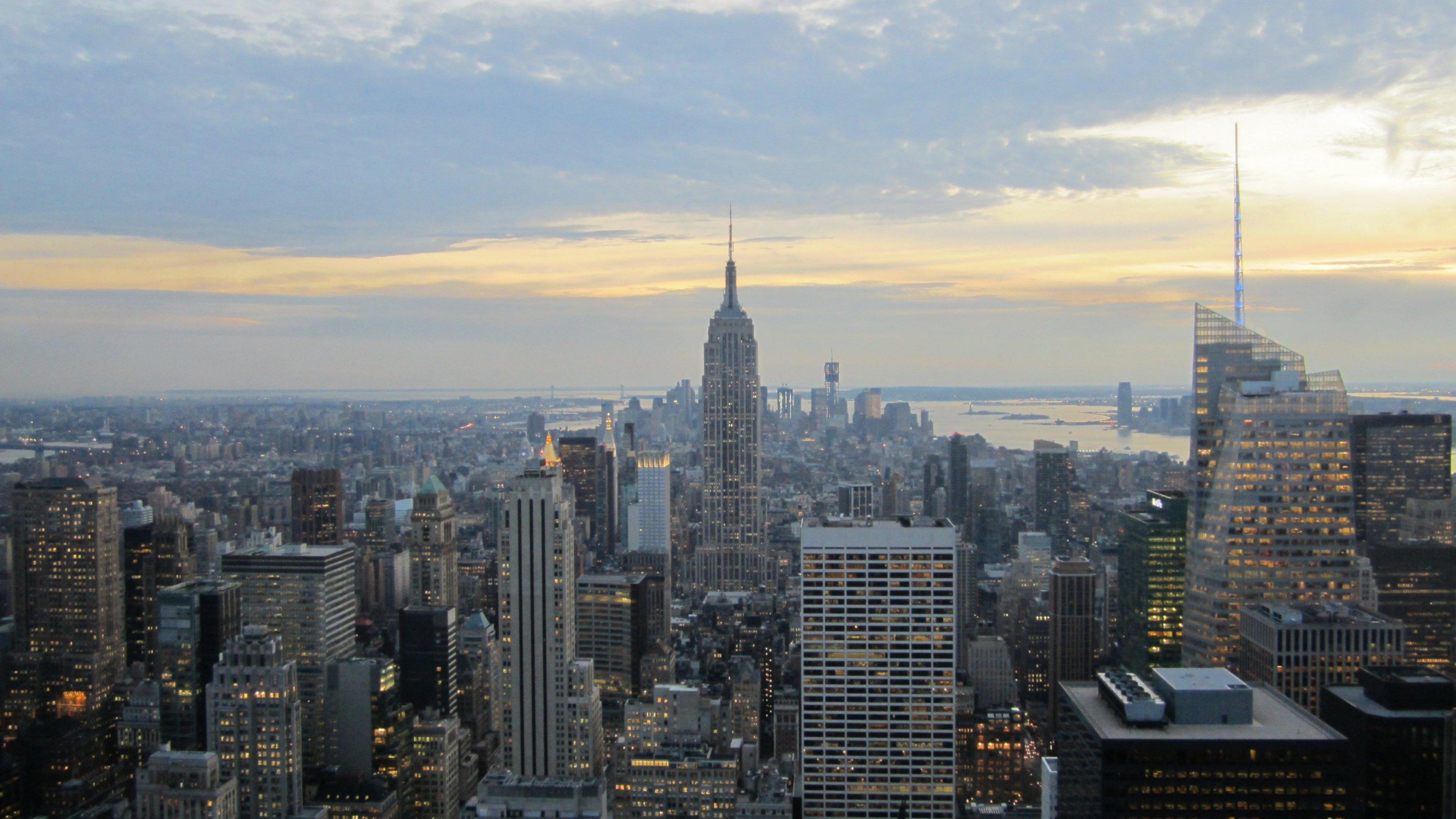 View from the Rockefeller Center.